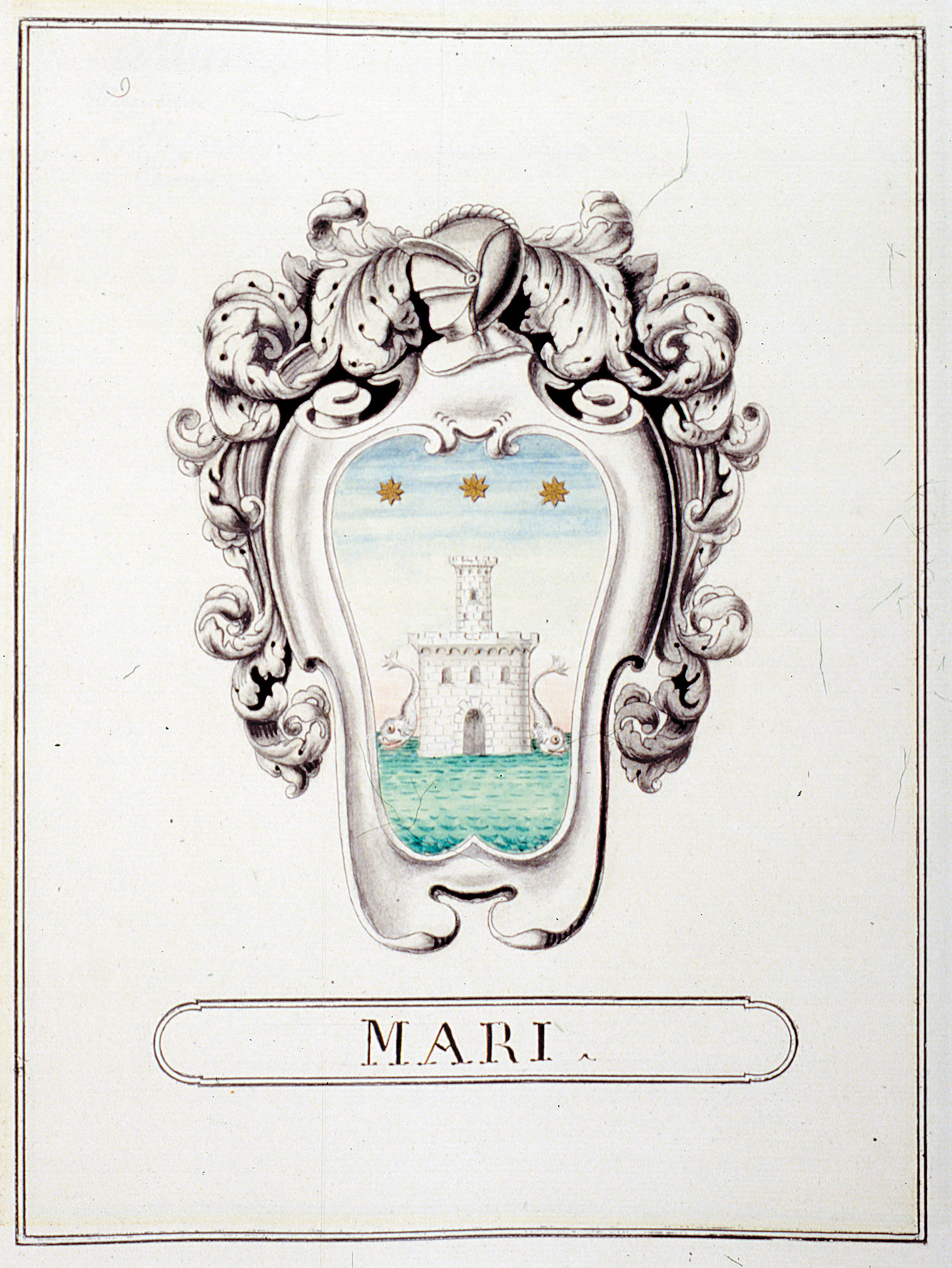 Coat of Arms of the Pisa branch of Mari, a florentine family.